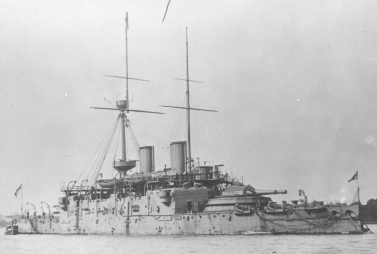 British battleship HMS Camperdown